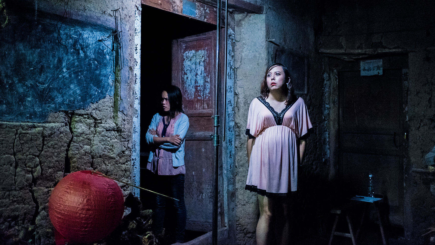 Shooting picture of Sunken Plum (Ciruela de agua dulce, Chen Li), a short film directed by Roberto F. Canuto and Xu Xiaoxi